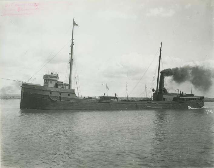 The steamer Robert Wallace prior to her sinking